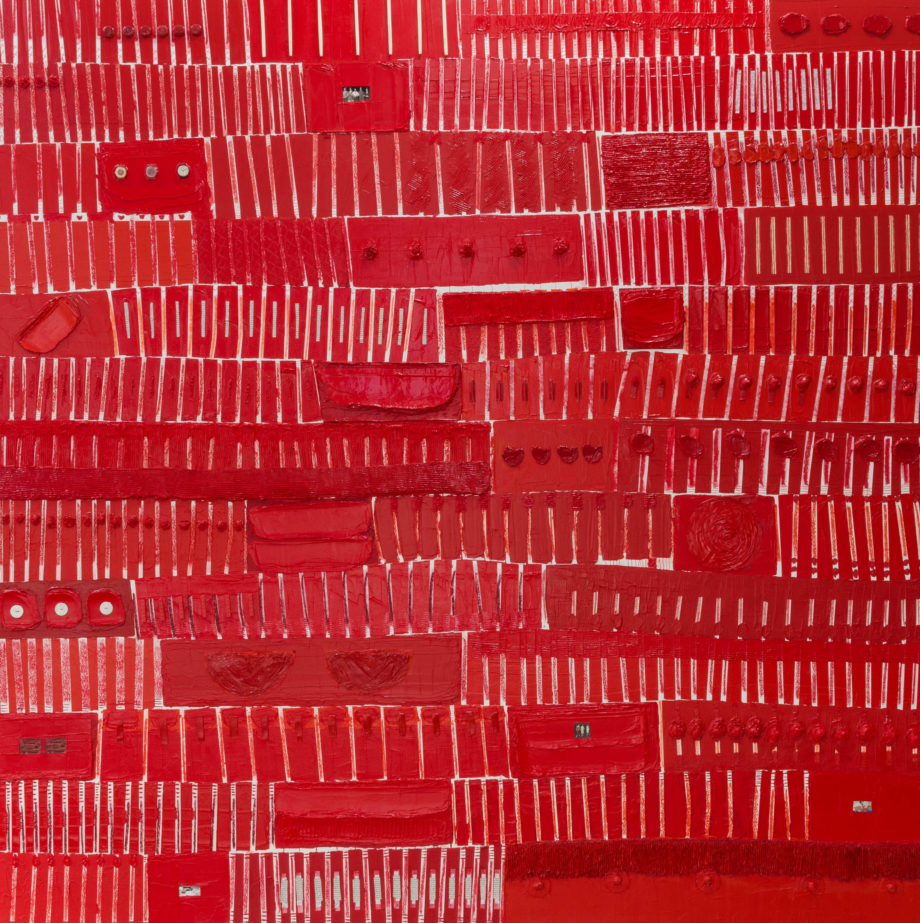 How Many, How Many More conjures up wars, shattered futures, and empty promises, metamorphosing into existential questions with no definite answers. Yet, far from a rhetorical lament, this series of work is a rebellion, a refusal of the status quo, an implicit call for action spurred by deep-seated fears. It is an ode to a wounded country, Lebanon, and to a region in a deadlock.